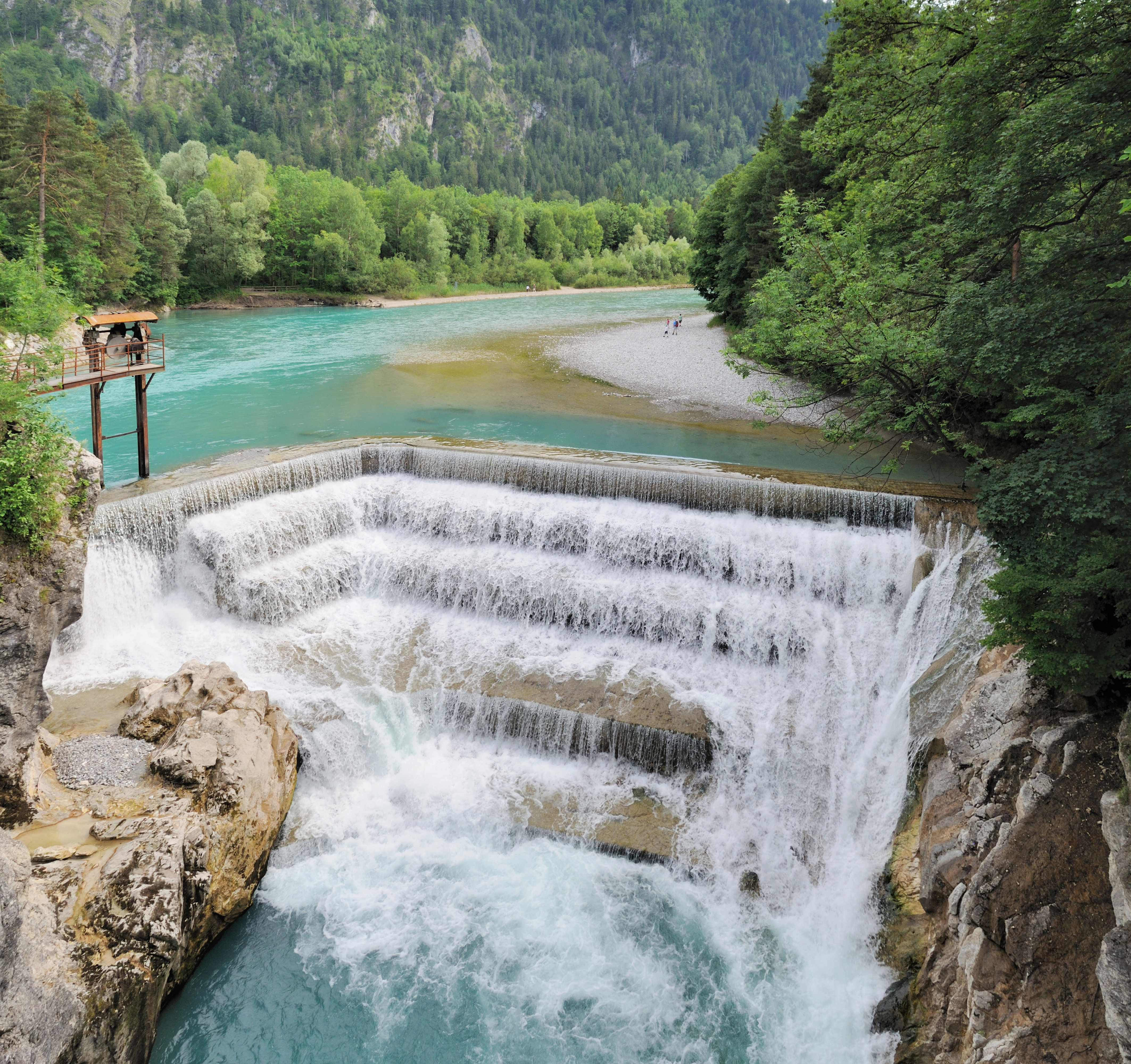 Lech weir Lechfall in Füssen